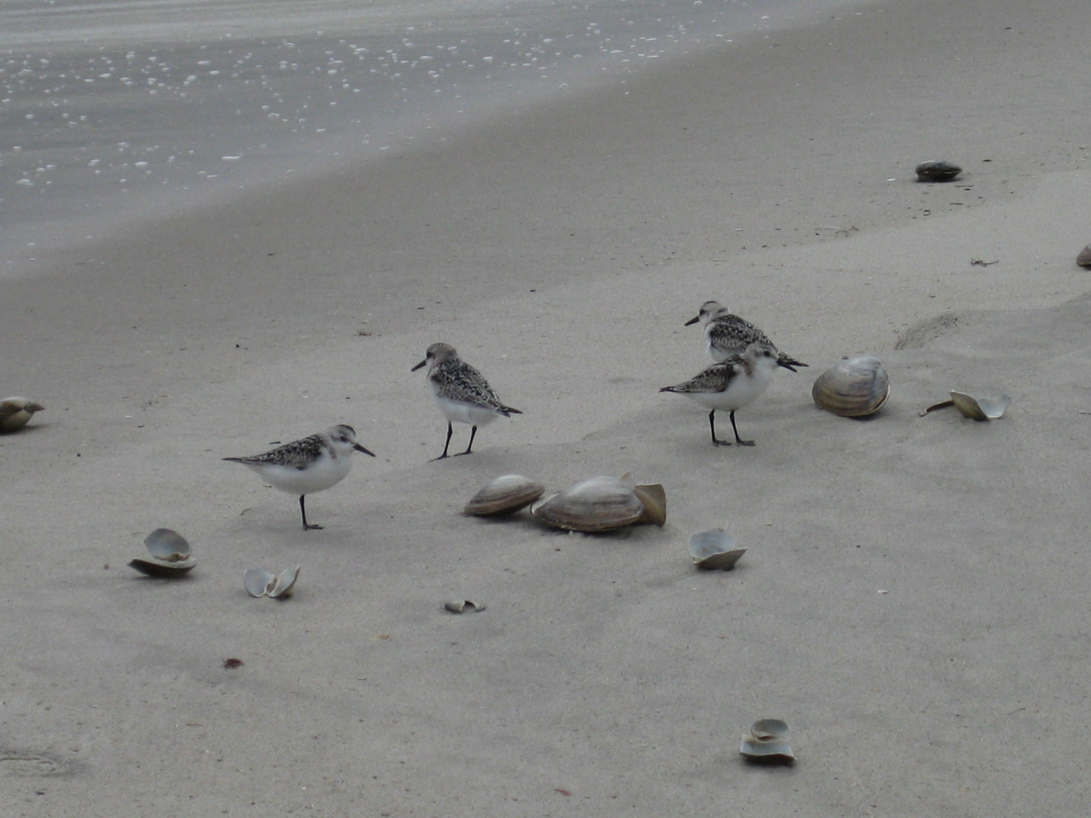 Sanderlings (Calidris alba) at Atlantic Beach, New York